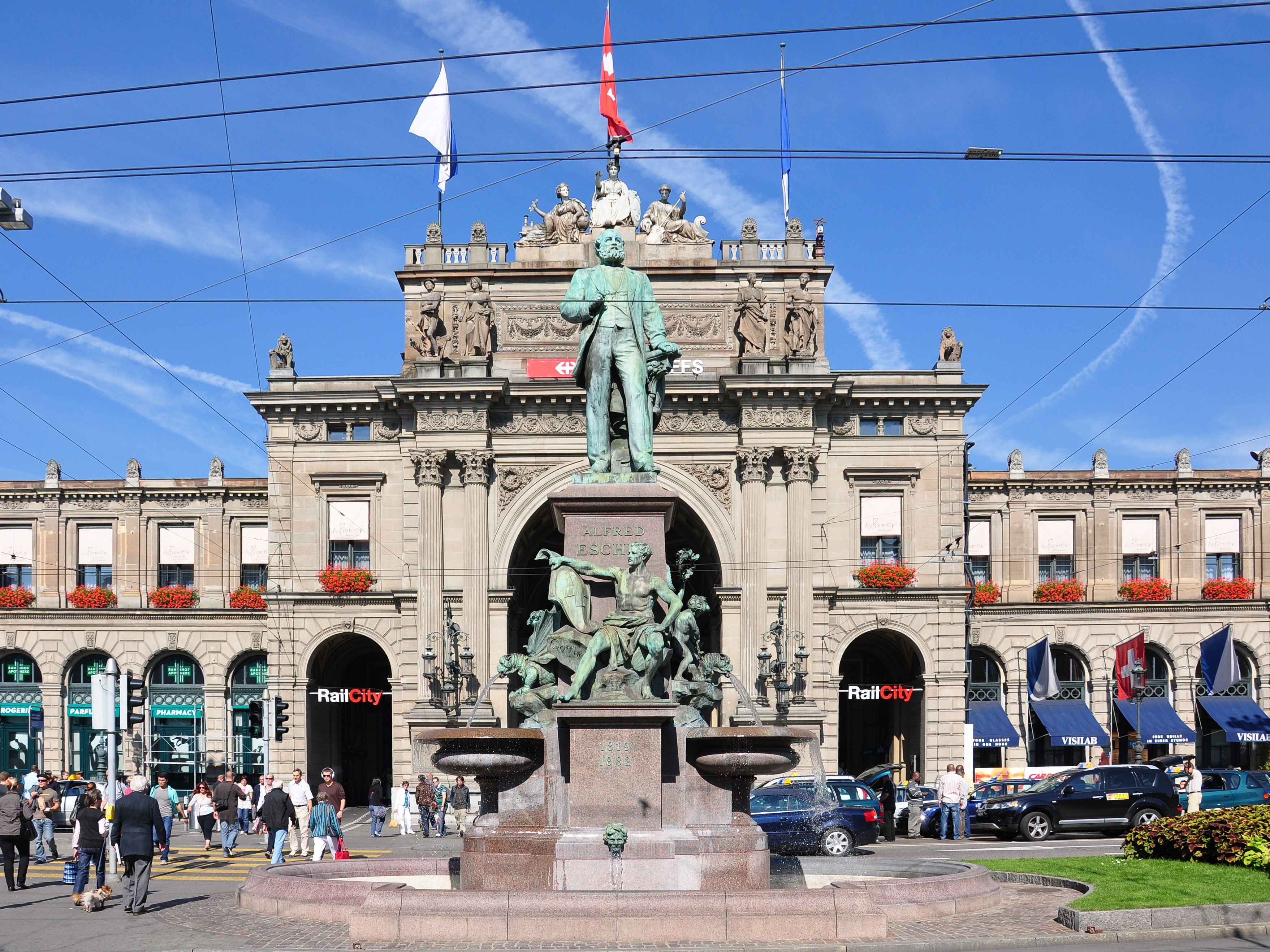 Alfred Escher monumental fountain, sculpted by Richard Kissling, on Bahnhofplatz situated at Hauptbahnhof in Zürich (Switzerland)